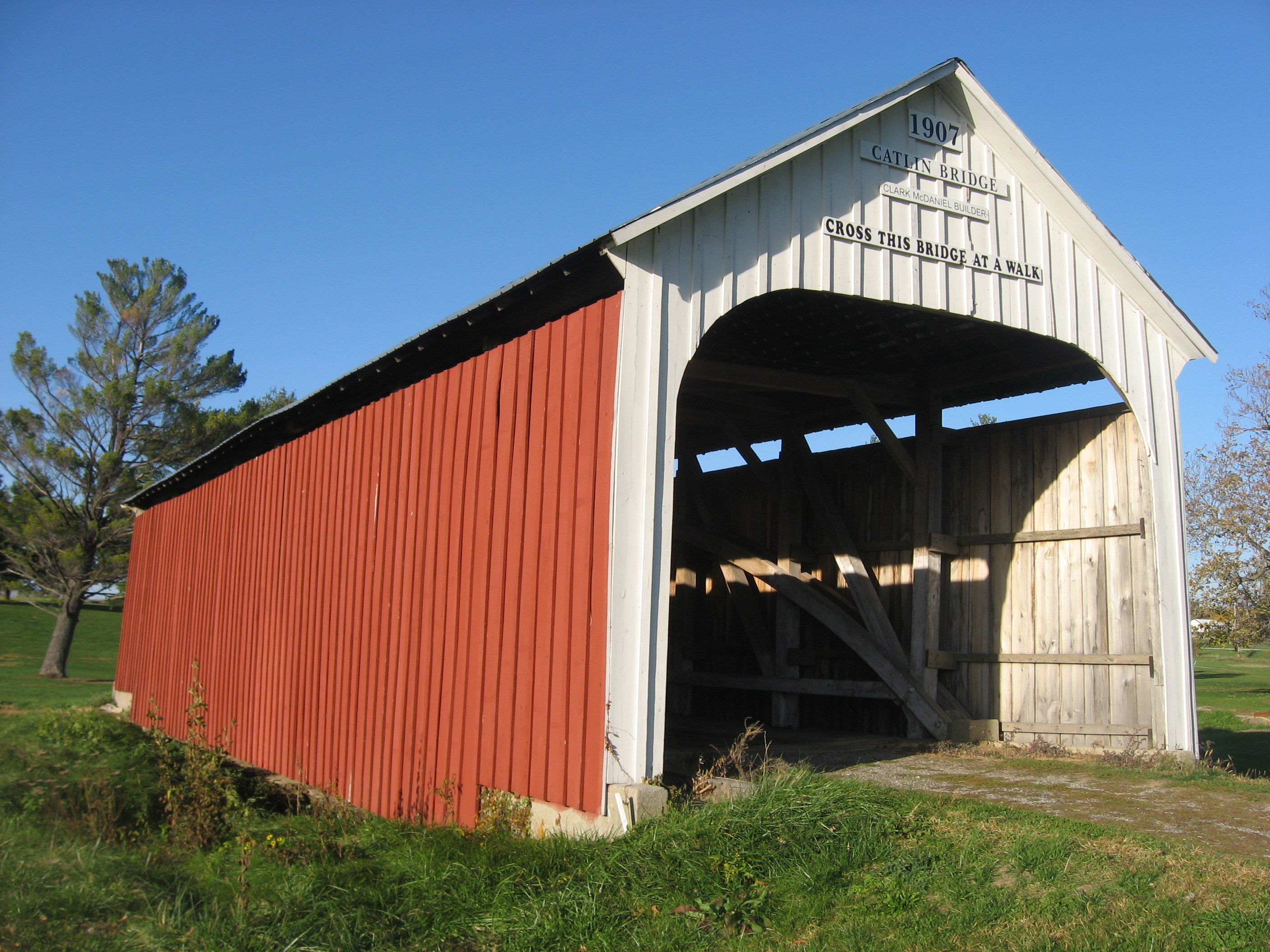 Southern portal and western side of the Catlin Covered Bridge, located off U.S. Route 36 on the grounds of the Parke County Golf Course in Adams Township, Parke County, Indiana, United States. Built in 1907 and moved to its present location in the 1960s, it is listed on the National Register of Historic Places.